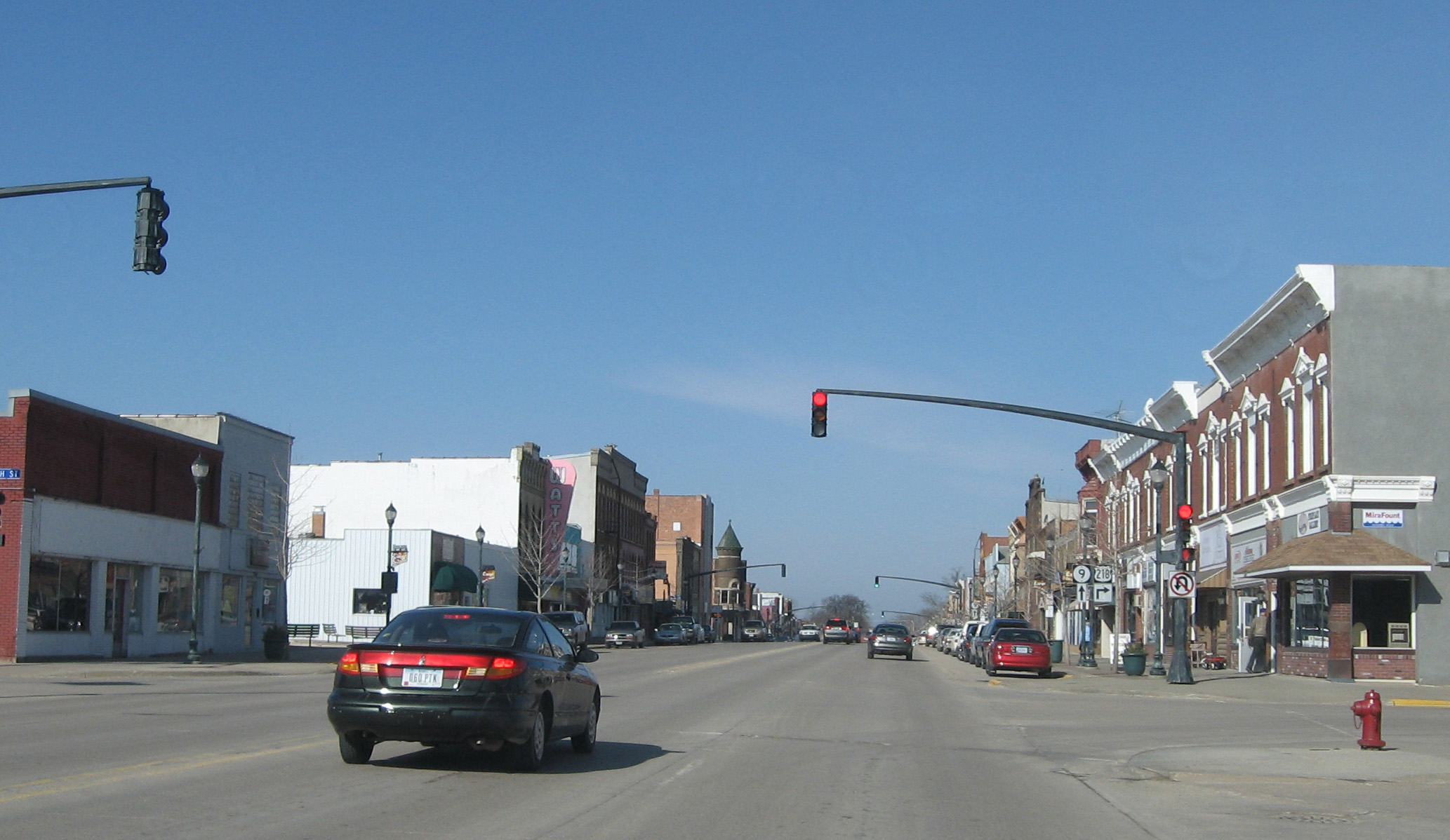 Downtown Osage, Iowa[Added by Nyttend:] picture appears to be taken looking westward along Main Street at the intersection with 8th Street; the buildings shown are part of the Osage Commercial Historic District listed on the National Register of Historic Places